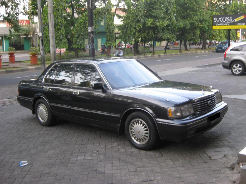 1994 Toyota Crown 2.0i Royal Saloon (GS131)